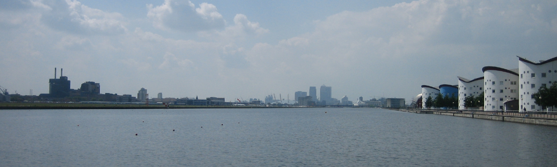 Photo of the Royal Albert Dock in London (United Kingdom), taken from the east end of the dock, north bank (Student Village of the University of East London. Visible. Left: London City Airport. Centre: Millennium Dome, behind that the Canary Wharf complex and surrounding skyscrapers. To the right; the ExCeL Exhibition Centre (white structure), the London Regatta Centre [1], the Royals Business Park (Building 1000) [2]. Far right is the University of East London (visible: Business School/Library building, followed by residential blocks.)